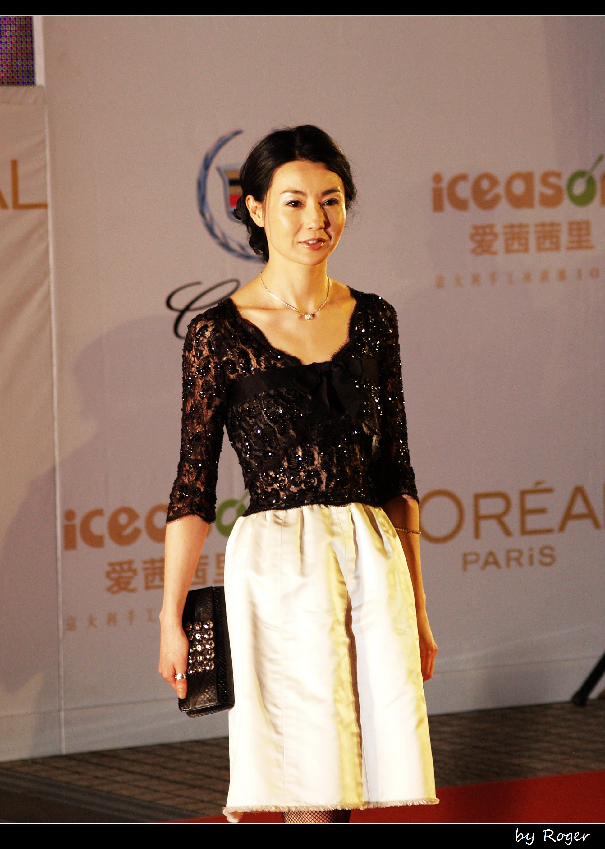 Maggie Cheung on Shanghai movie festival(2007).